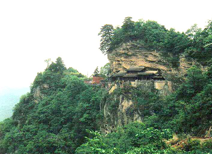 Wu Tang Cliffside Temple